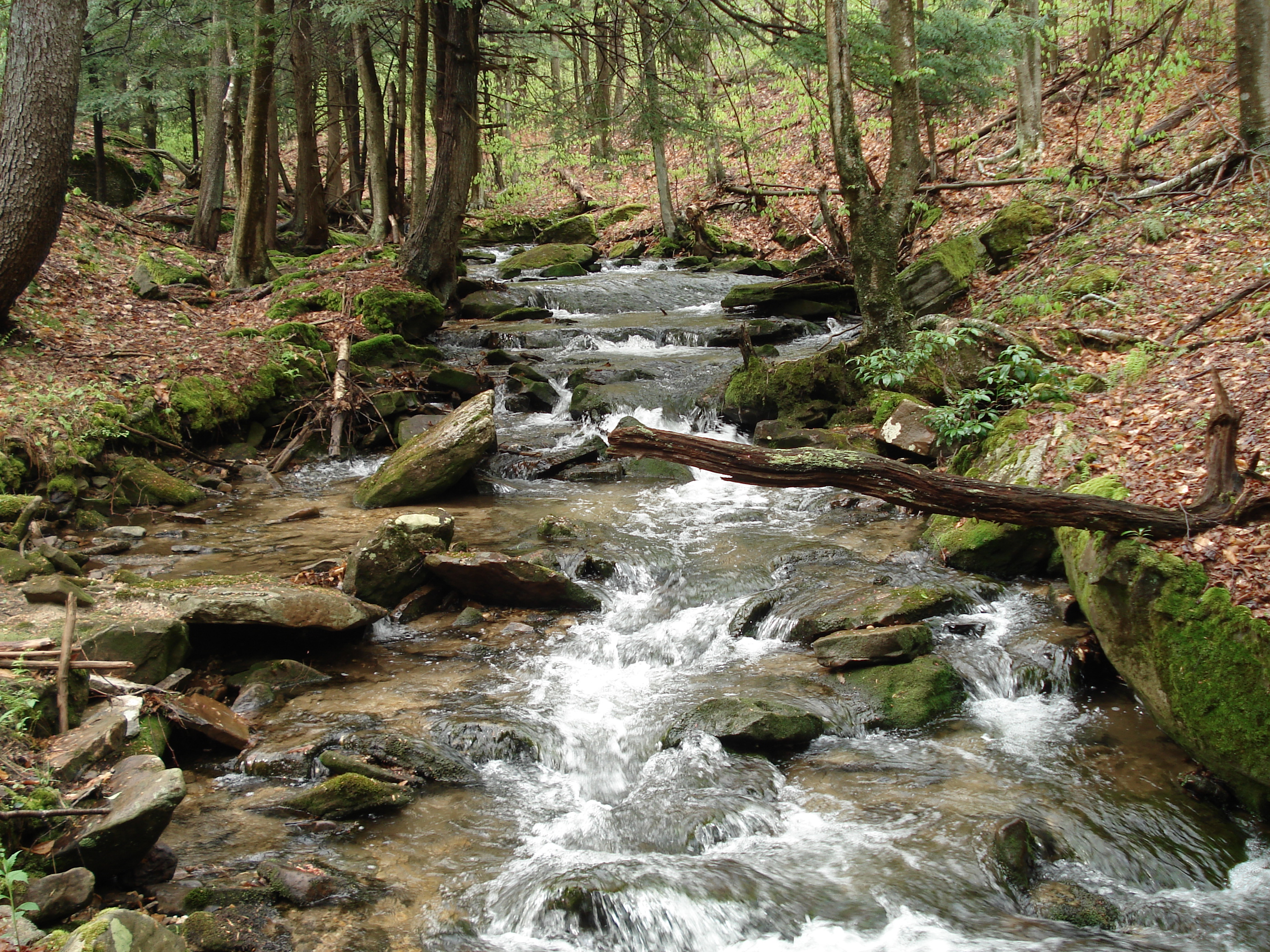 Minister Creek Allegheny National Forest. Taken 5/12/2007 3:15:52